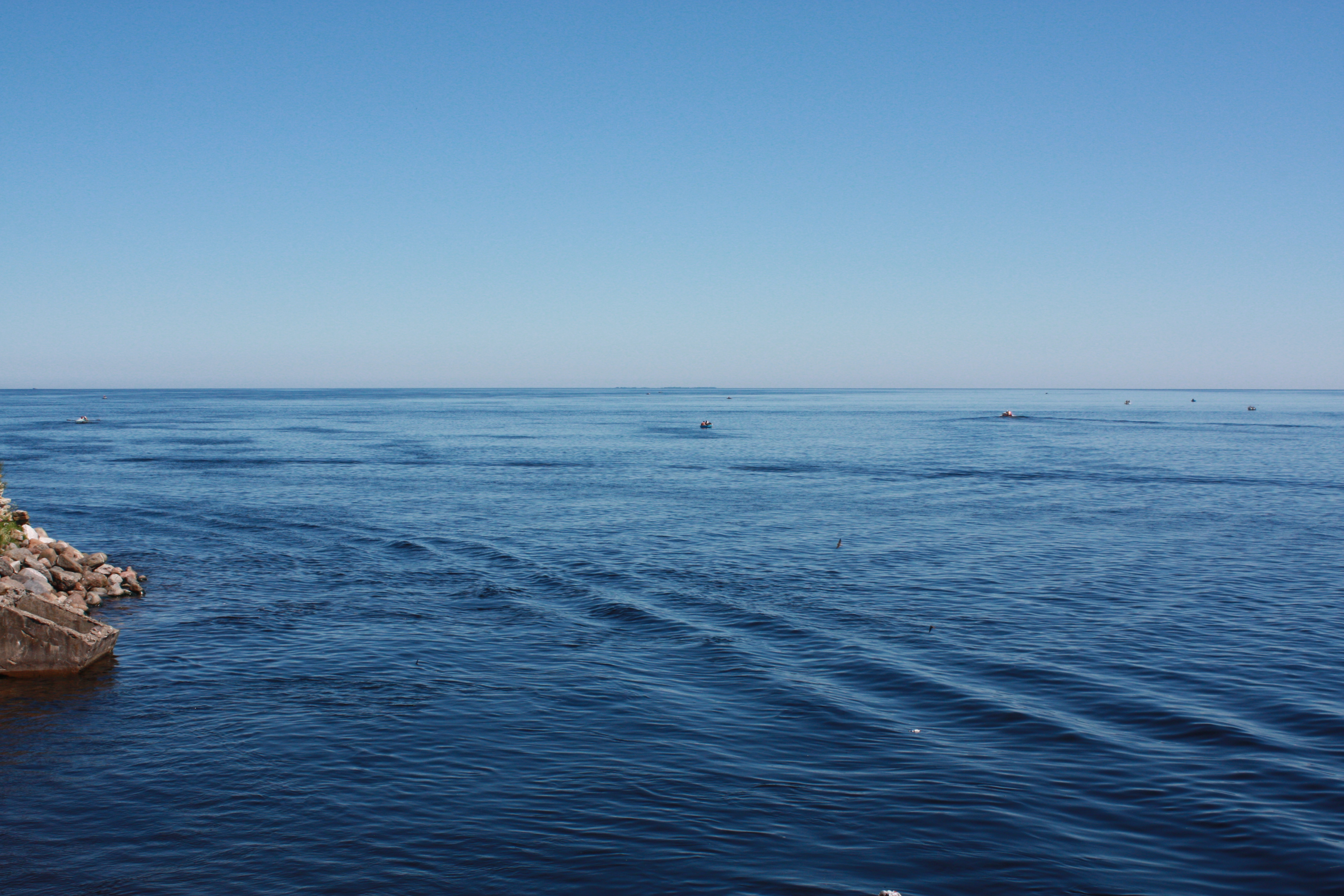 View of Lake Ladoga from the Oreshek fortress.